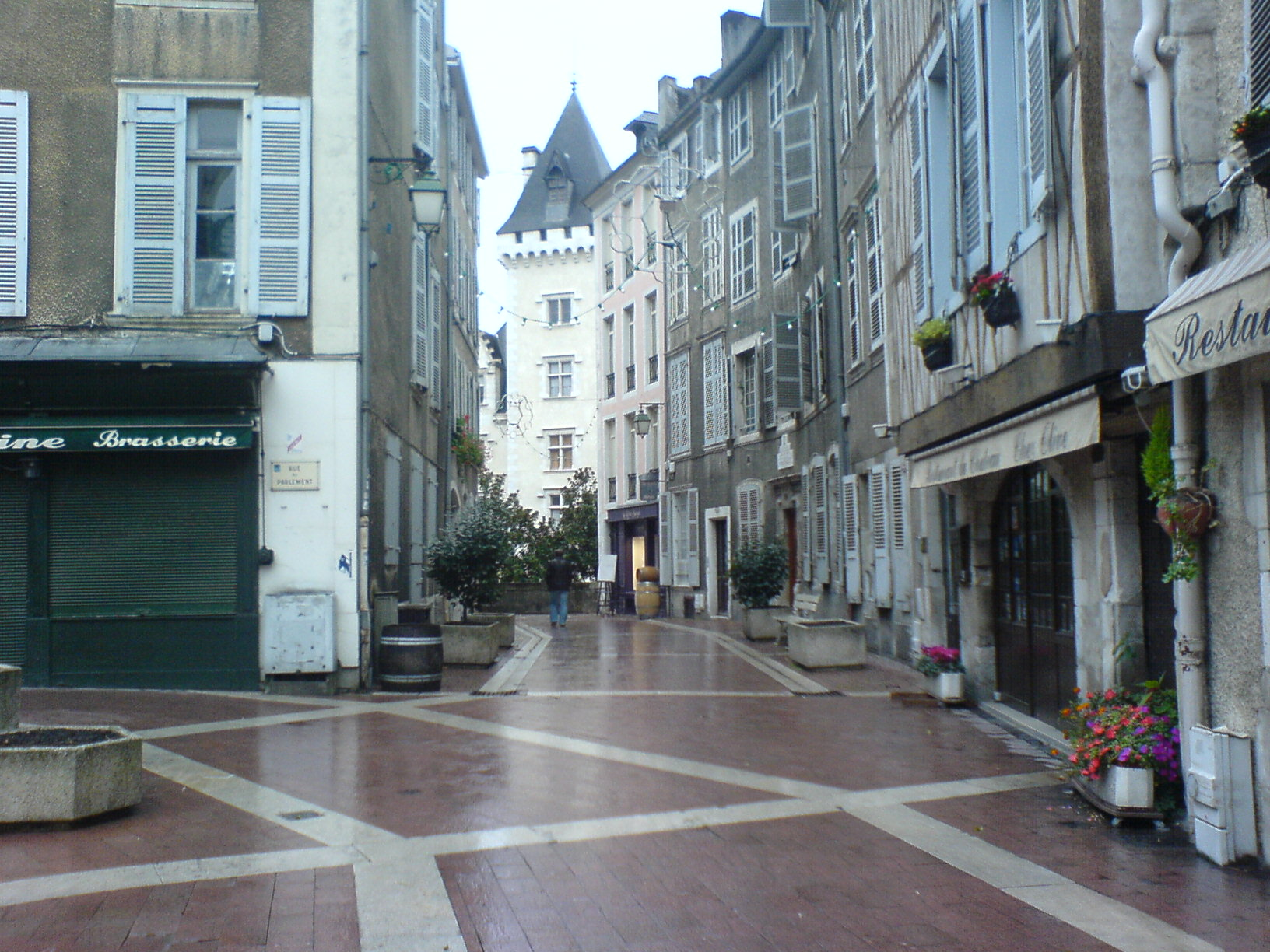 Looking towards the Chateau de Pau, France.